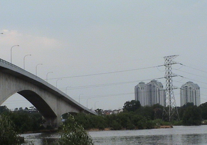 This picture show Permas Jaya and the bridge in 2006 (before the build of second bridge)